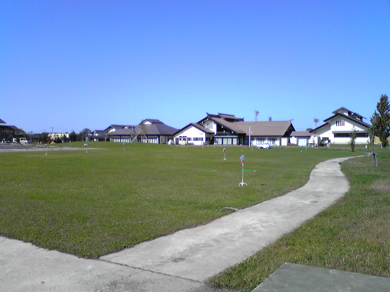 Accommodation facility at Michinoeki Shonai Mikawa in Mikawa Town, Yamagata Prefecture, Japan